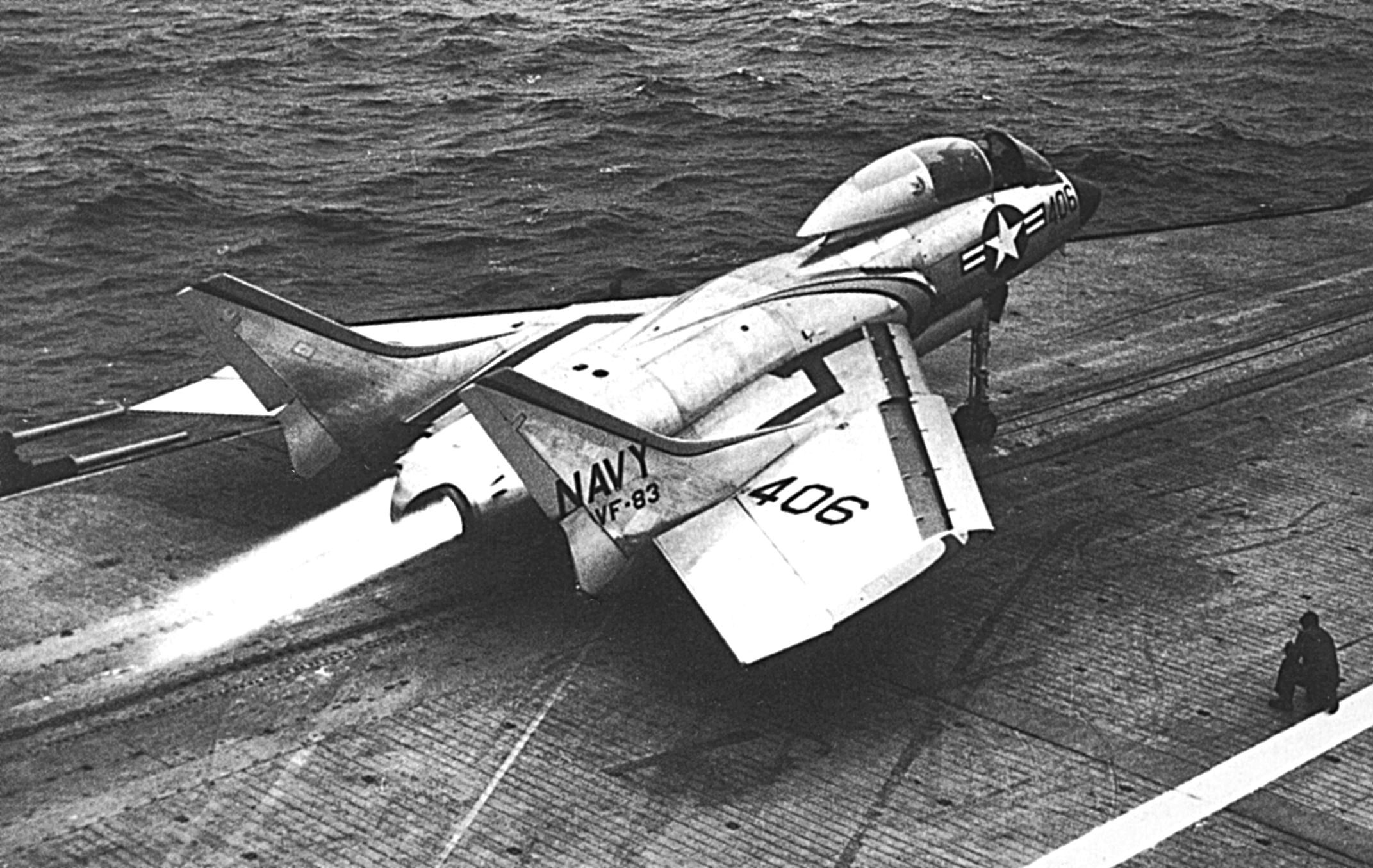 A U.S. Navy Vought F7U-3M Cutlass of fighter squadron VF-83 launches from the aircraft carrier USS Intrepid (CVA-11) in 1954.